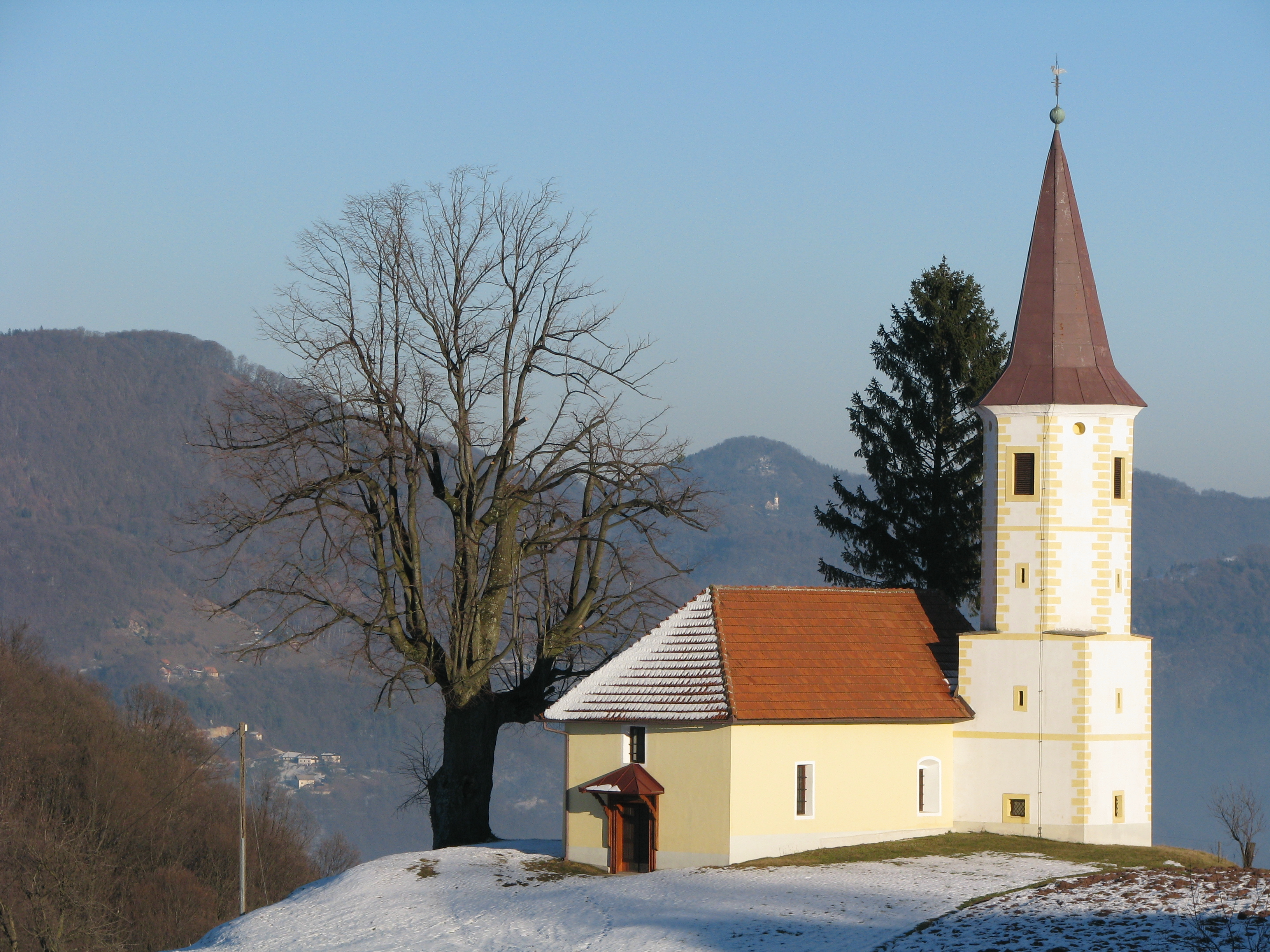 Church of Saint Nicholas from 17th century, located in Močilno, Slovenia.